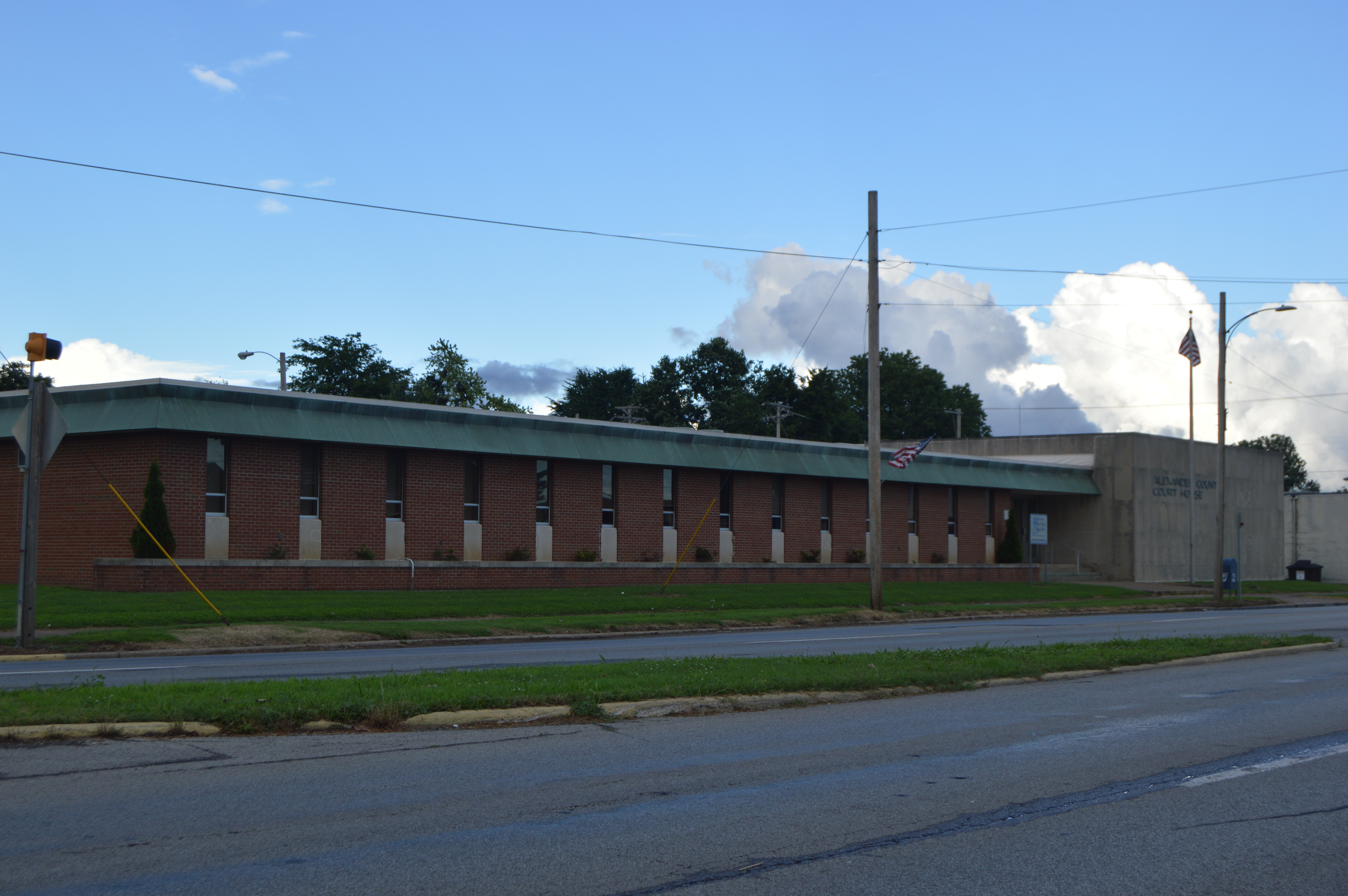 Front of the Alexander County Courthouse, located at 2000 Washington Avenue (U.S. Route 51) in Cairo, Illinois, United States. It was built in 1965.